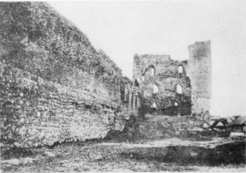 Caslte of Kreva, Belarus. Крэўскі замак, Беларусь